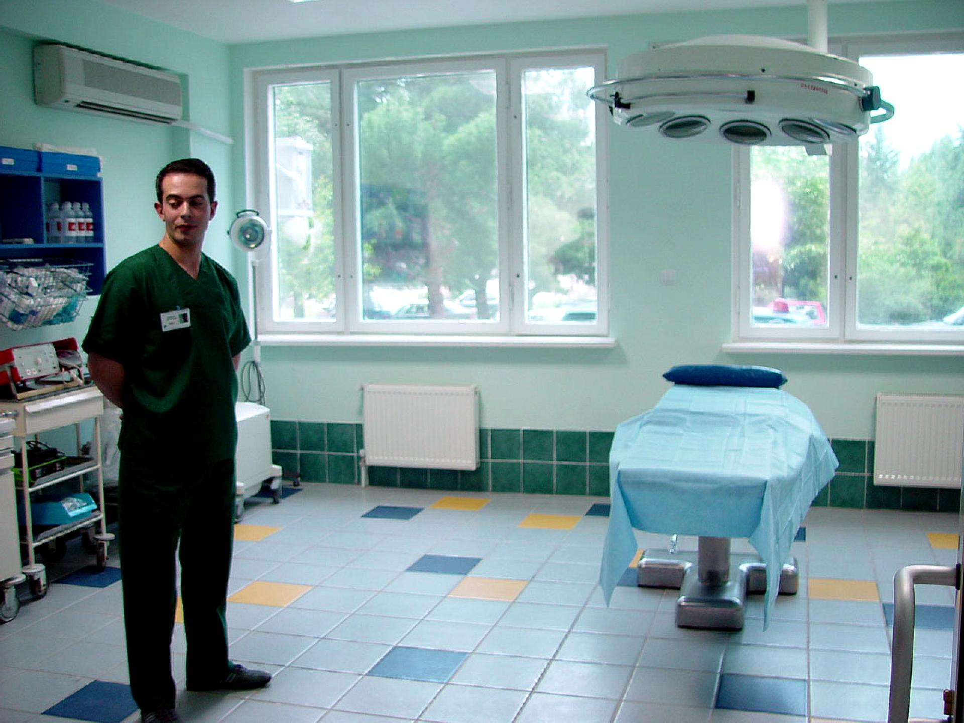 The new state of the art pediatric emergency room at Iashvili childrens central hospital in Tbilisi